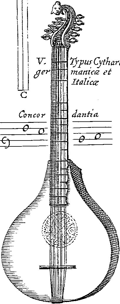 A cittern, labeled cythara Germanica et Italica to distinguish it from other instruments designated by cythara.